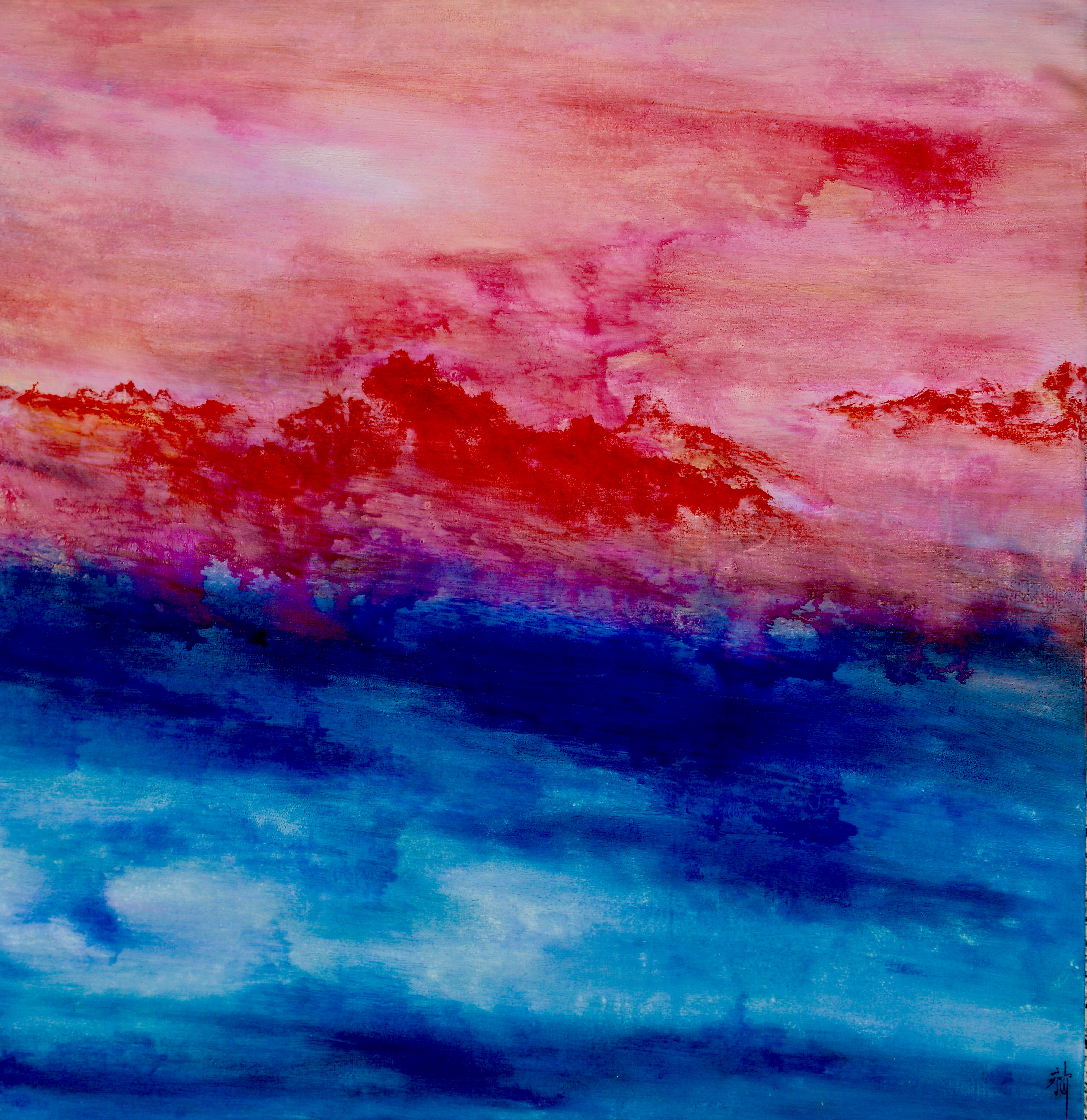 Huile sur toile